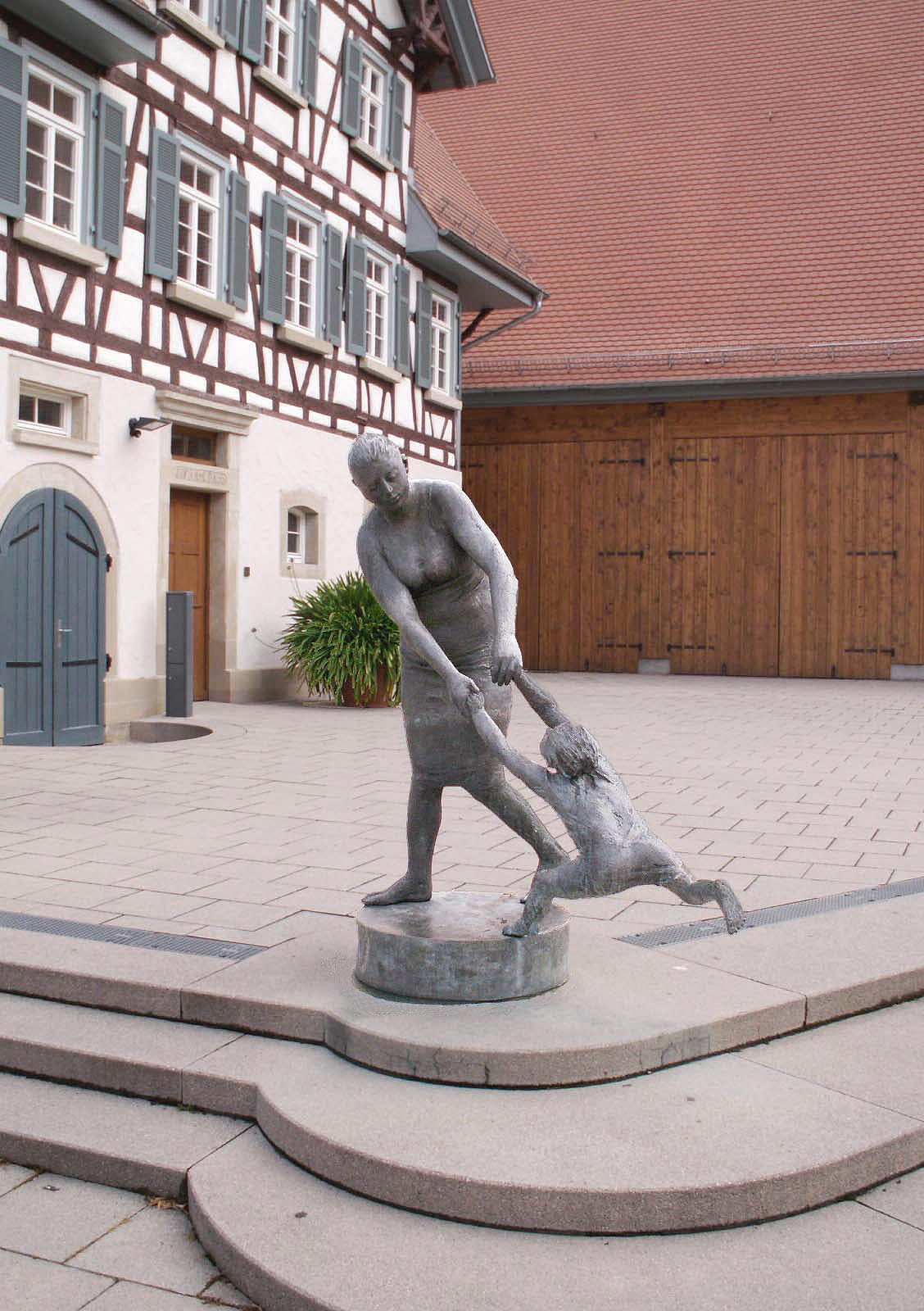 Karl-Henning Seemann, Germany, Baden-Wuerttemberg, Bondorf, Mutter und Kind Gruppe, 2001/02